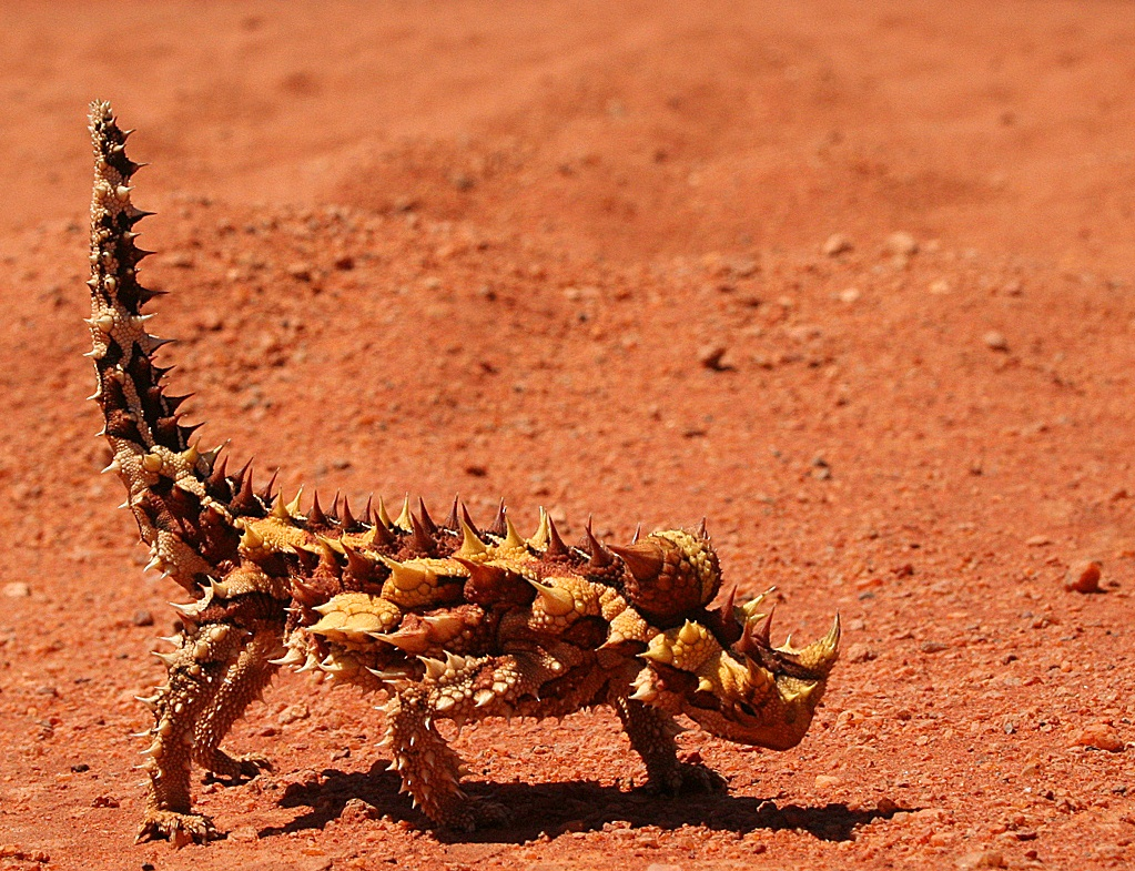 Thorny devil (Moloch horridus) at Great Central Road (WA)